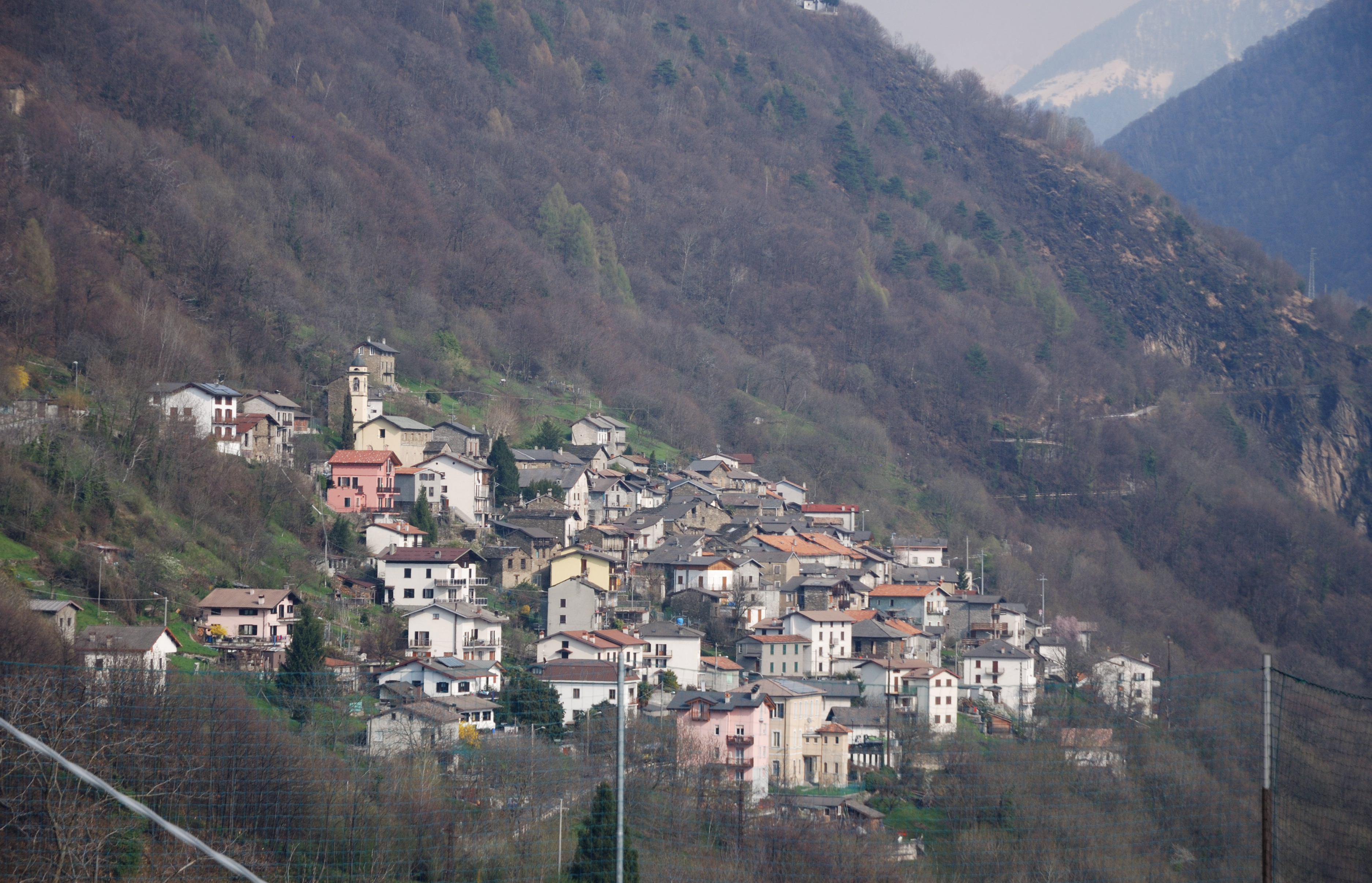 Introzzo: landscape